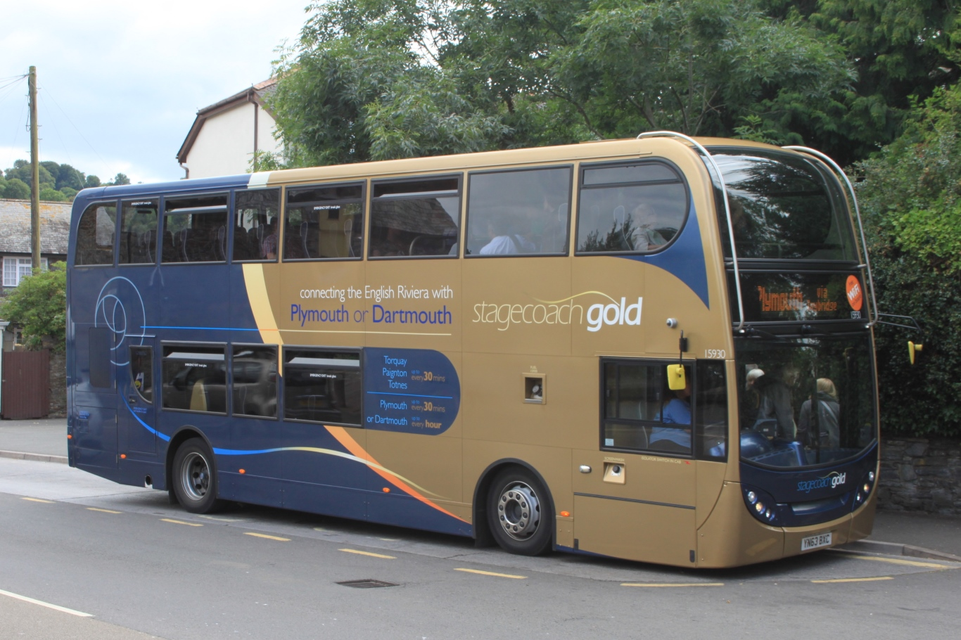 The Torbay to Plymouth 'Stagecoach Gold' service calls at Totnes. The bus on this service is 15930, a Scania-powered Enviro 400 registered YN63BXC.